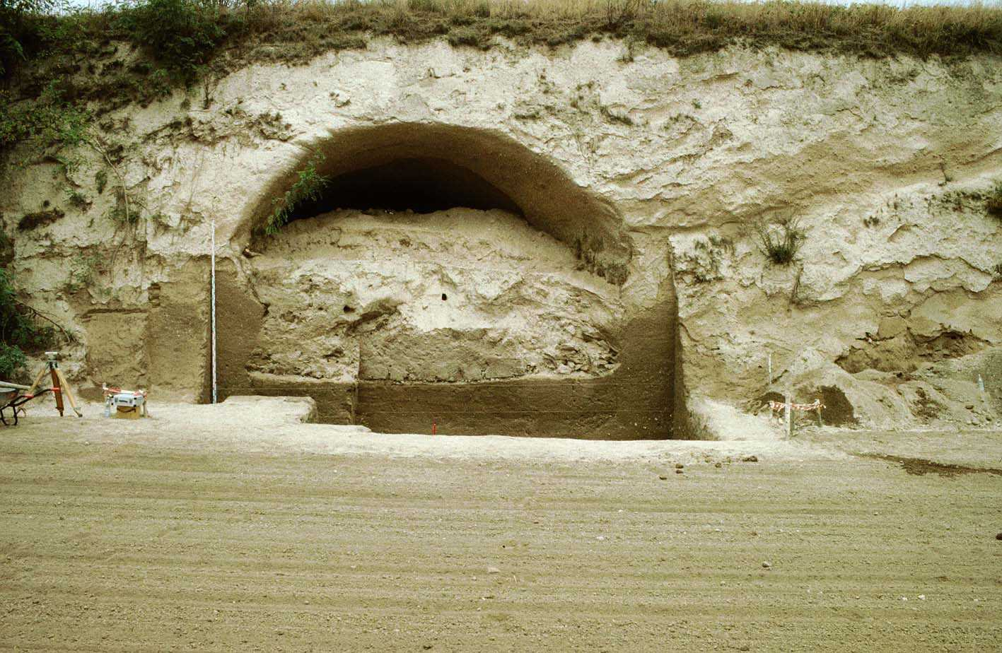 Krufter Bachtal